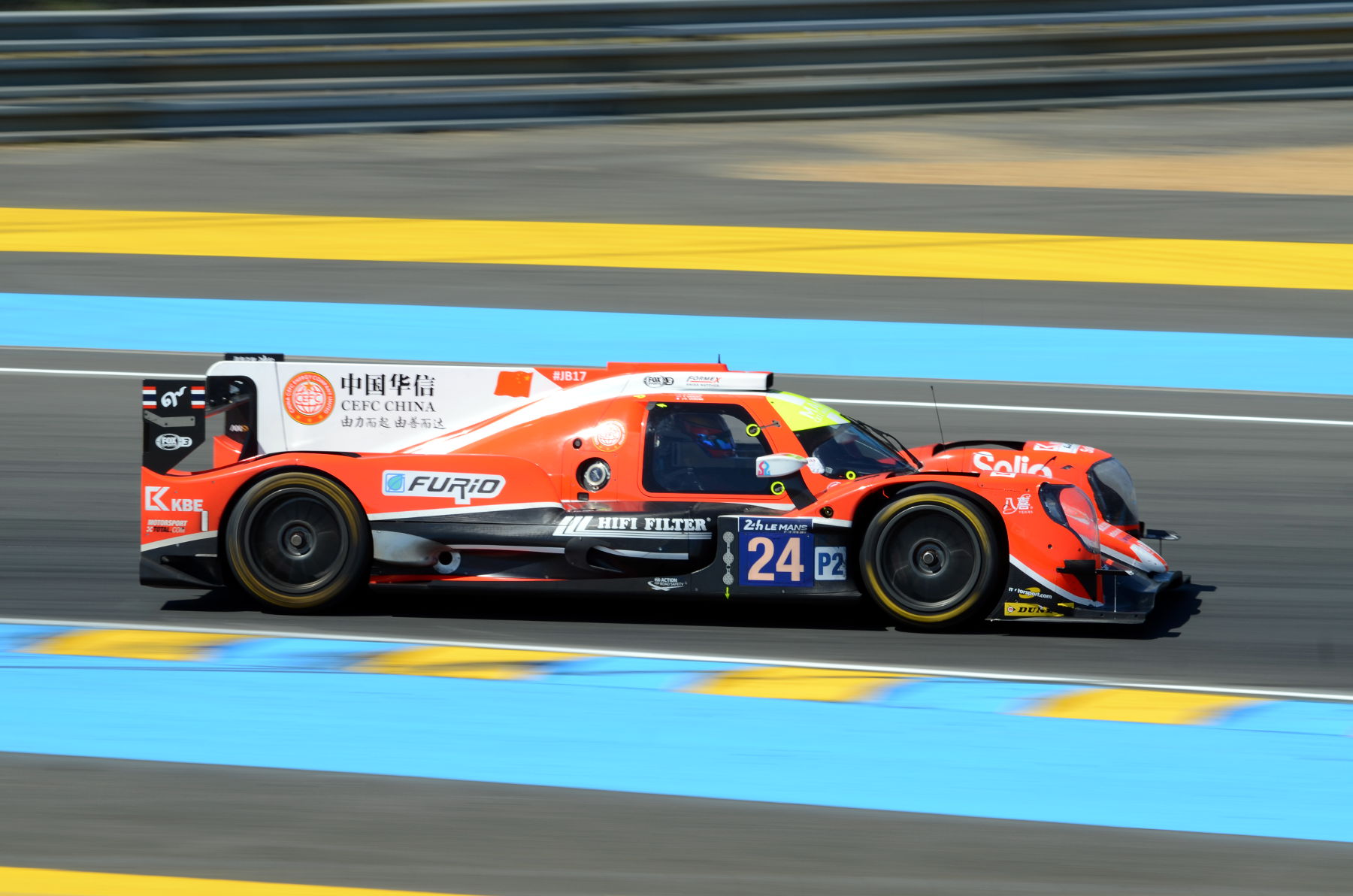 CEFC Manor TRS Racing's Oreca 07 Gibson Driven by Tor Graves, Jonathan Hirschi and Jean-Éric Vergne at the 2017 24 Hours of Le Mans